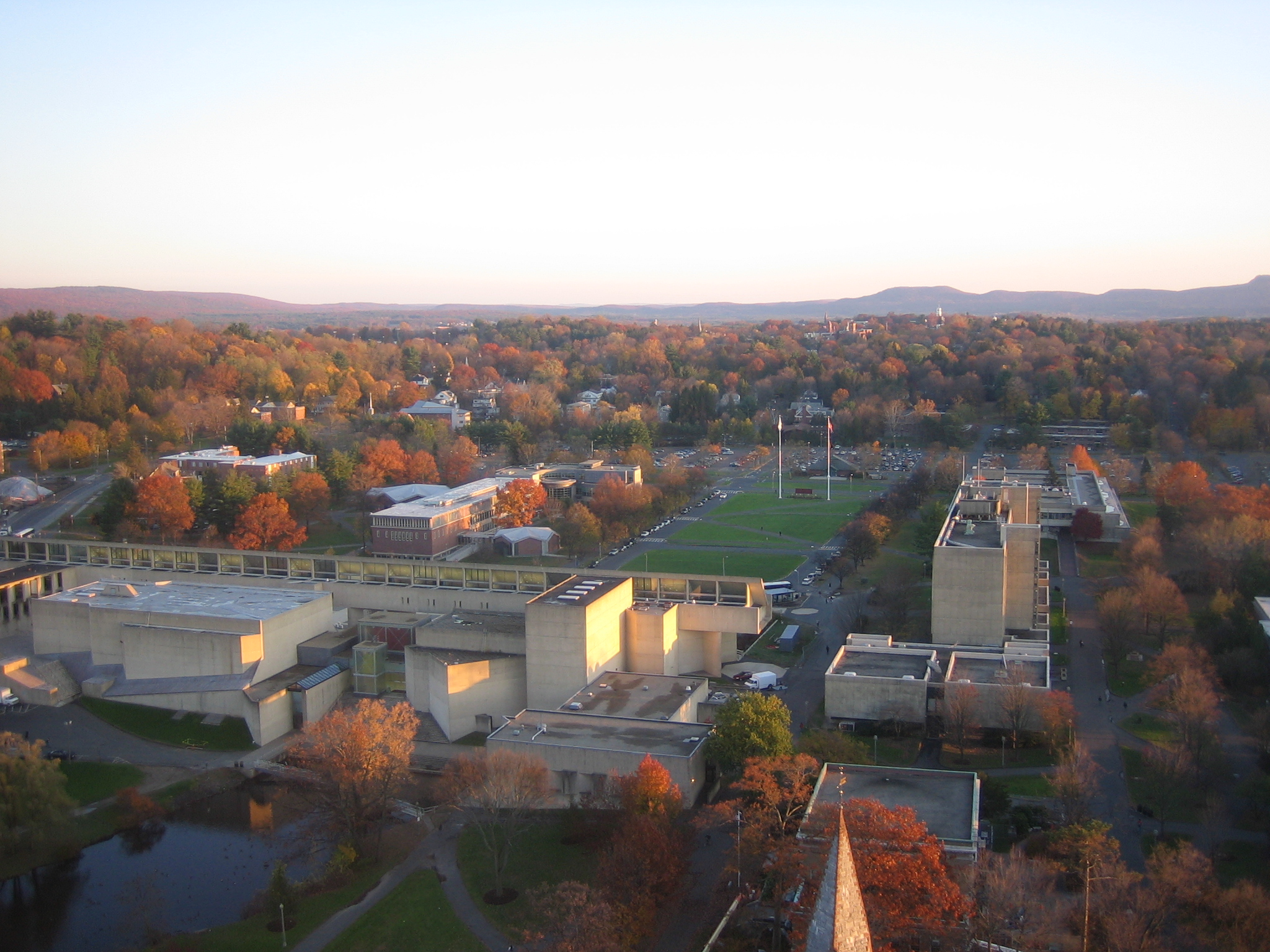 UMass at Amherst, picture taken from the W.E.B. DuBois Library. In the front (left), Fine Arts Center (1968-74) by Kevin Roche.